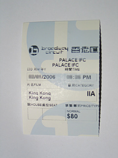 A cinema ticket of Palace IFC.